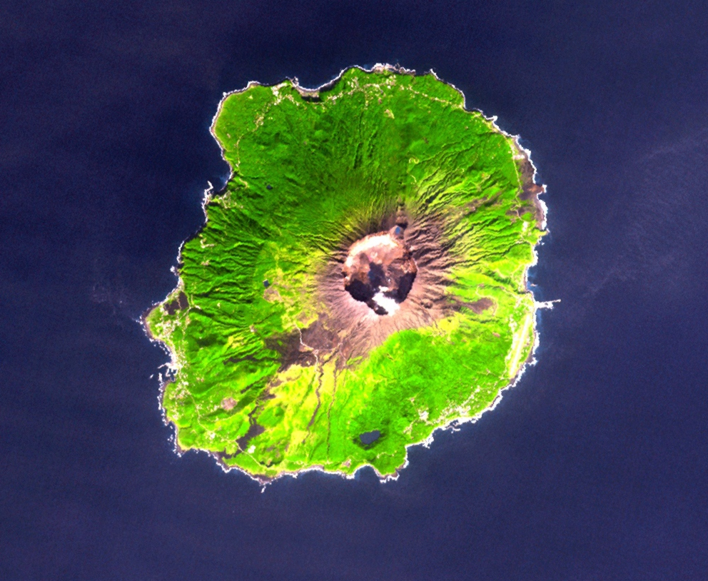 Miyake-jima, 2011-11-14